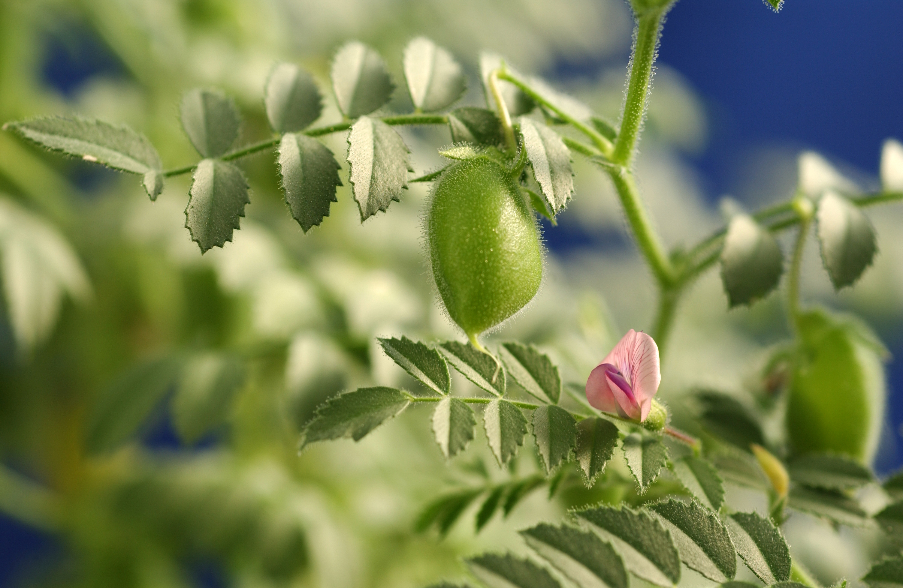 Chickpea productivity in Australia is constrained because it is not well adapted as a winter annual; it cannot set pods under cool conditions. This exposes the crop to drought late in the season every year. CSIRO Plant Industry is characterising global chickpea environments so that they can identify cold tolerance in wild and cultivated chickpea relatives from cool areas.